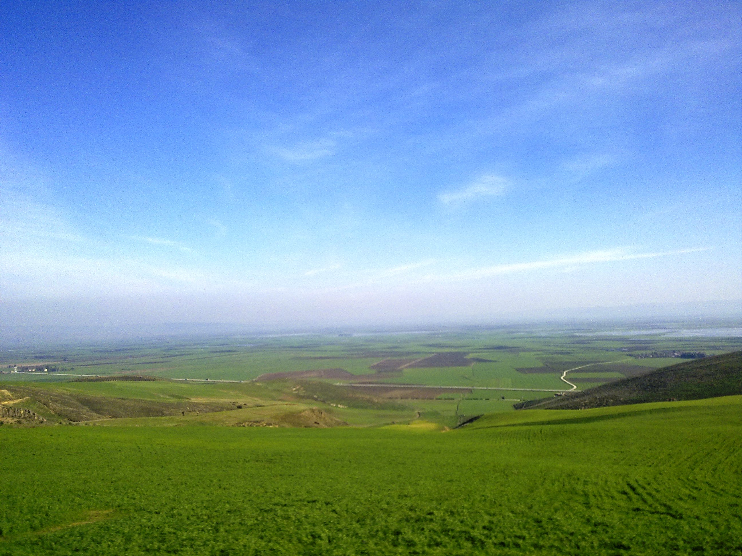 Amuq Valley, in the Levantine part of Turkey